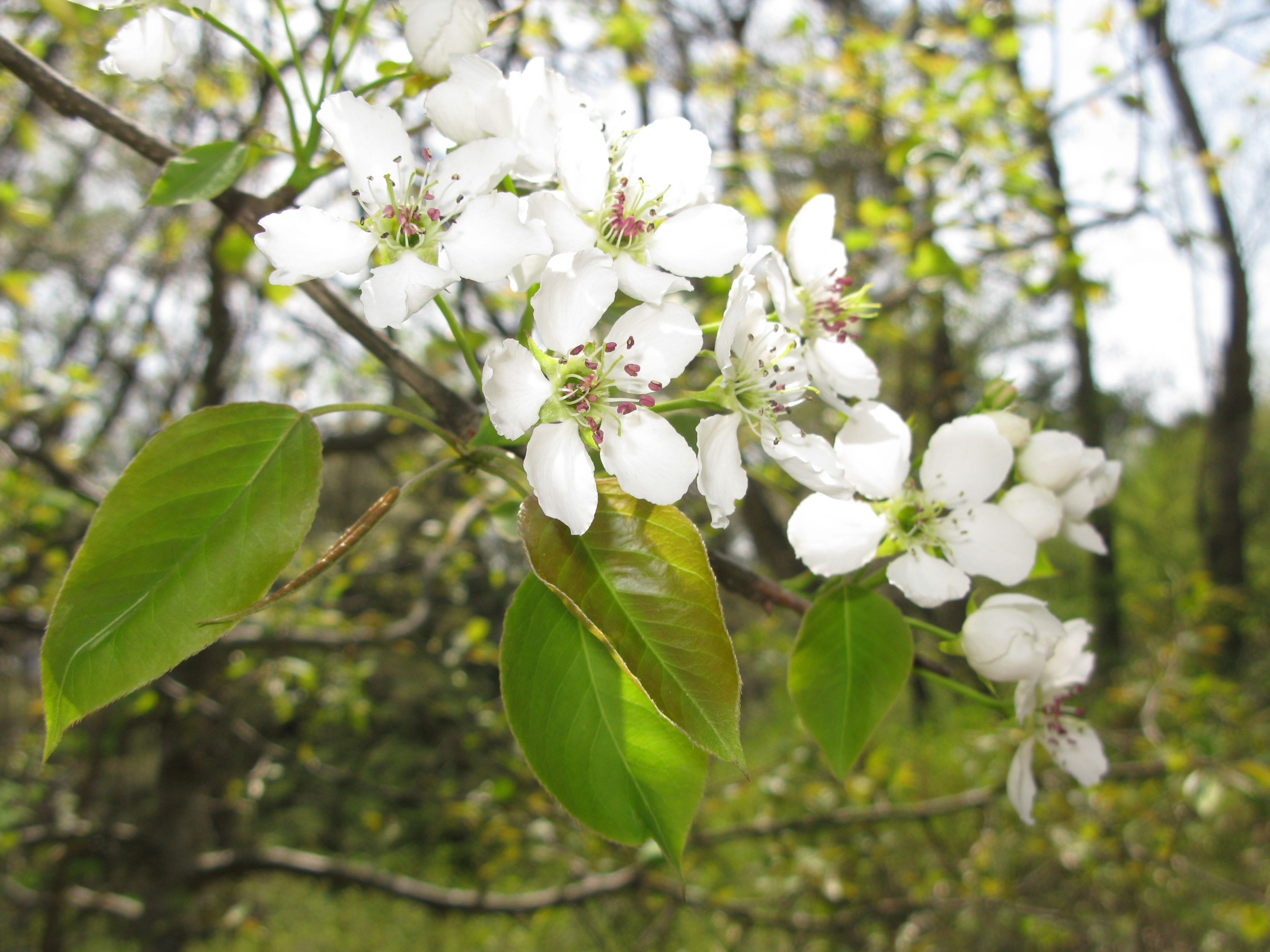 Pyrus pyrifolia, Aizu area, Fukushima pref., Japan